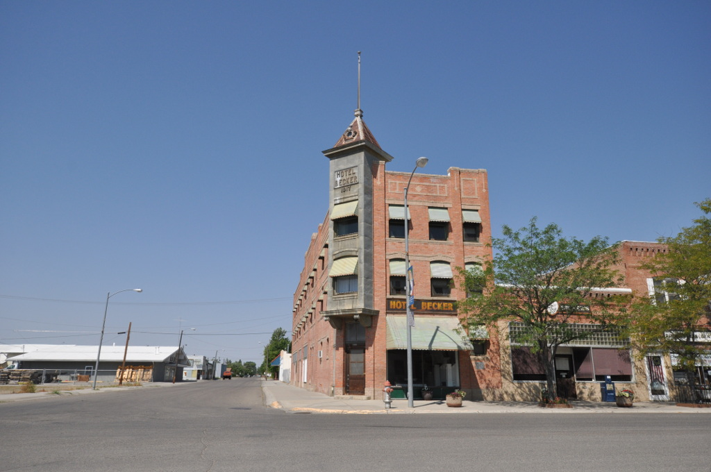 Commercial District, Hardin, Montana. Hotel Becker.